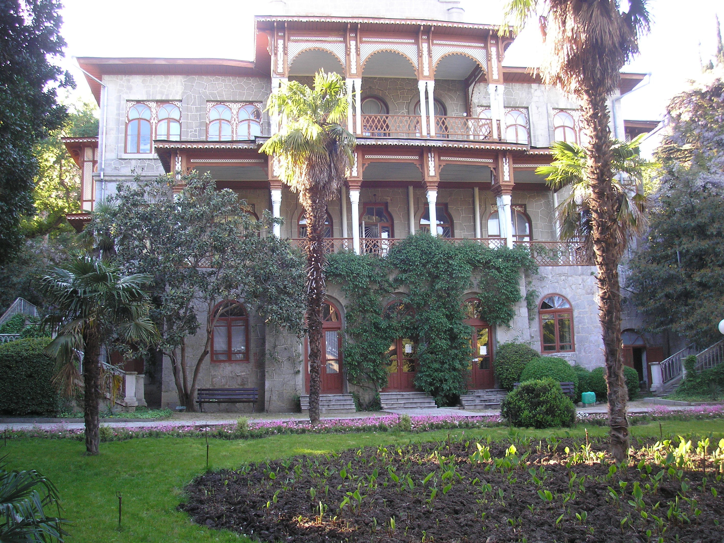 Rayevskys palace, manor Karasan Crimea